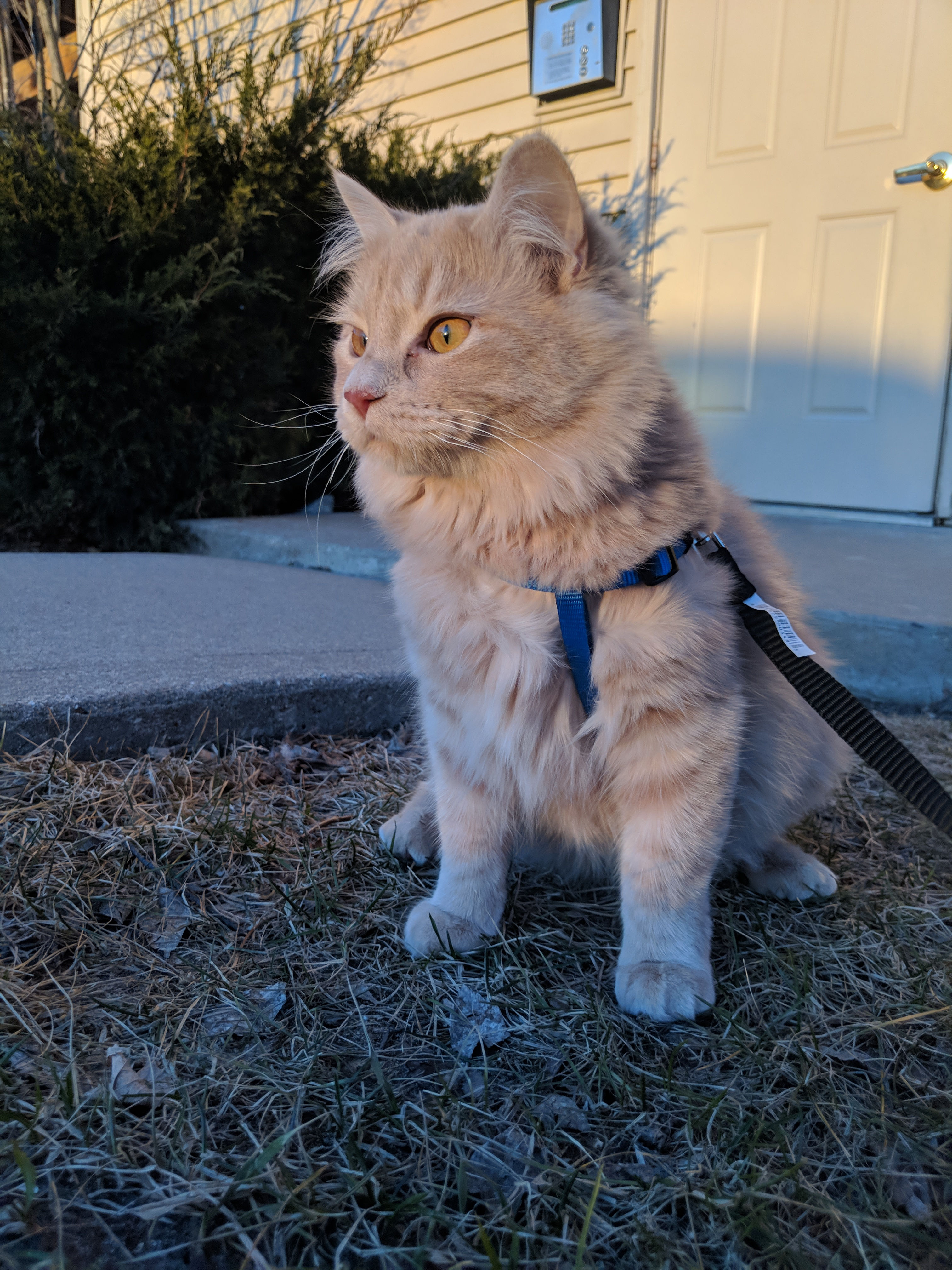 Cat on a Leash Enjoying the Outdoors